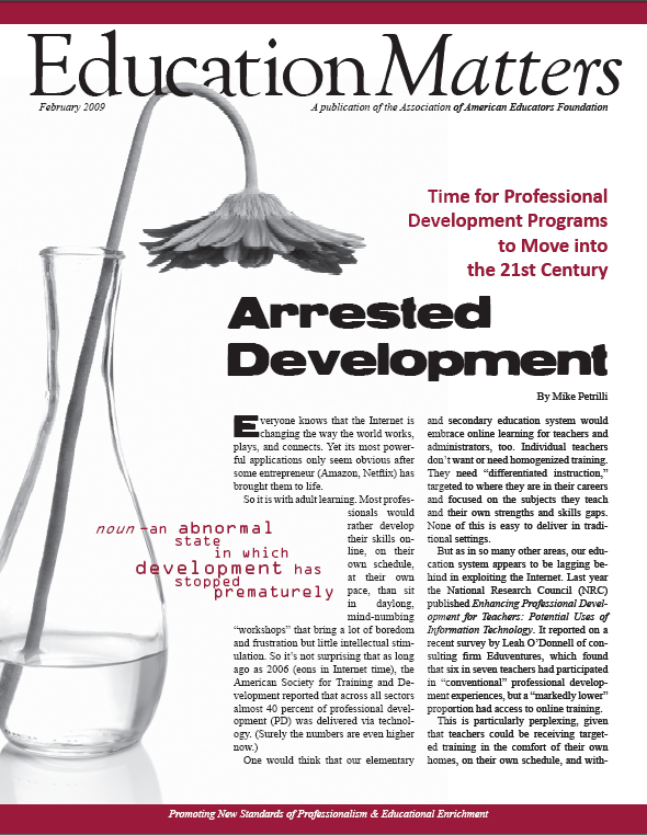 Cover of the February 2009 Issue of Education Matters, published by the Association of American Educators.